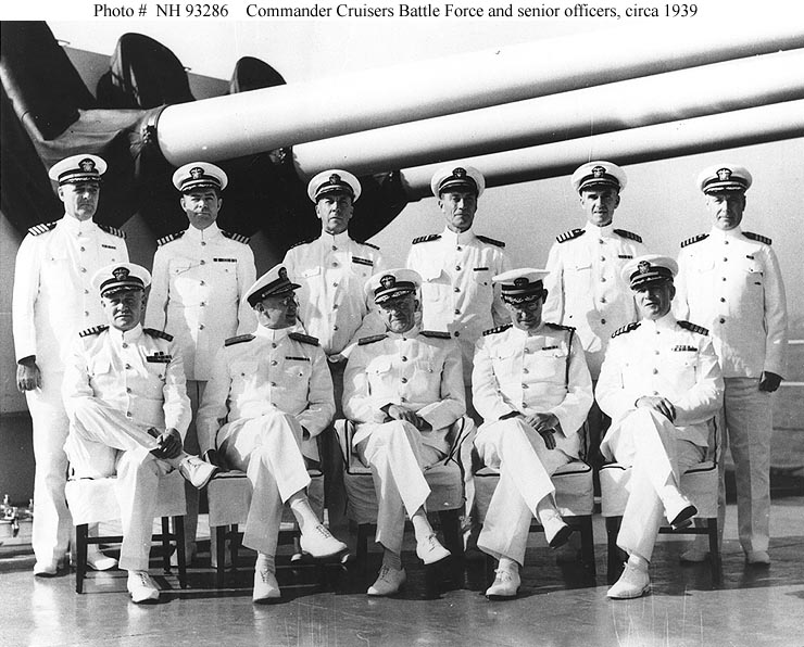 Rear Admiral Harold R. Stark, USN, Commander, Cruisers, Battle Force, and Commander, Cruiser Division Nine (seated, centers) photographed with commanders of his Cruiser Divisions and ships, probably on board USS Honolulu (CL-48), circa 1939. Those present are seated, left to right: Captain Robert C. Giffen, Commanding Officer, USS Savannah; Rear Admiral Forde A. Todd, Commander, Cruiser Division 8; Rear Admiral Stark; Captain Willis A. Lee, Chief of Staff and Aide to RAdm. Stark; and an unidentified captain. standing, left to right: Captain Frank H. Kelley, Jr., Commanding Officer, USS Milwaukee; an unidentified captain; Captain Jules James, Commanding Officer, USS Philadelphia; Captain William D. Brereton, Jr., Commanding Officer, USS Brooklyn; and two unidentified captains.